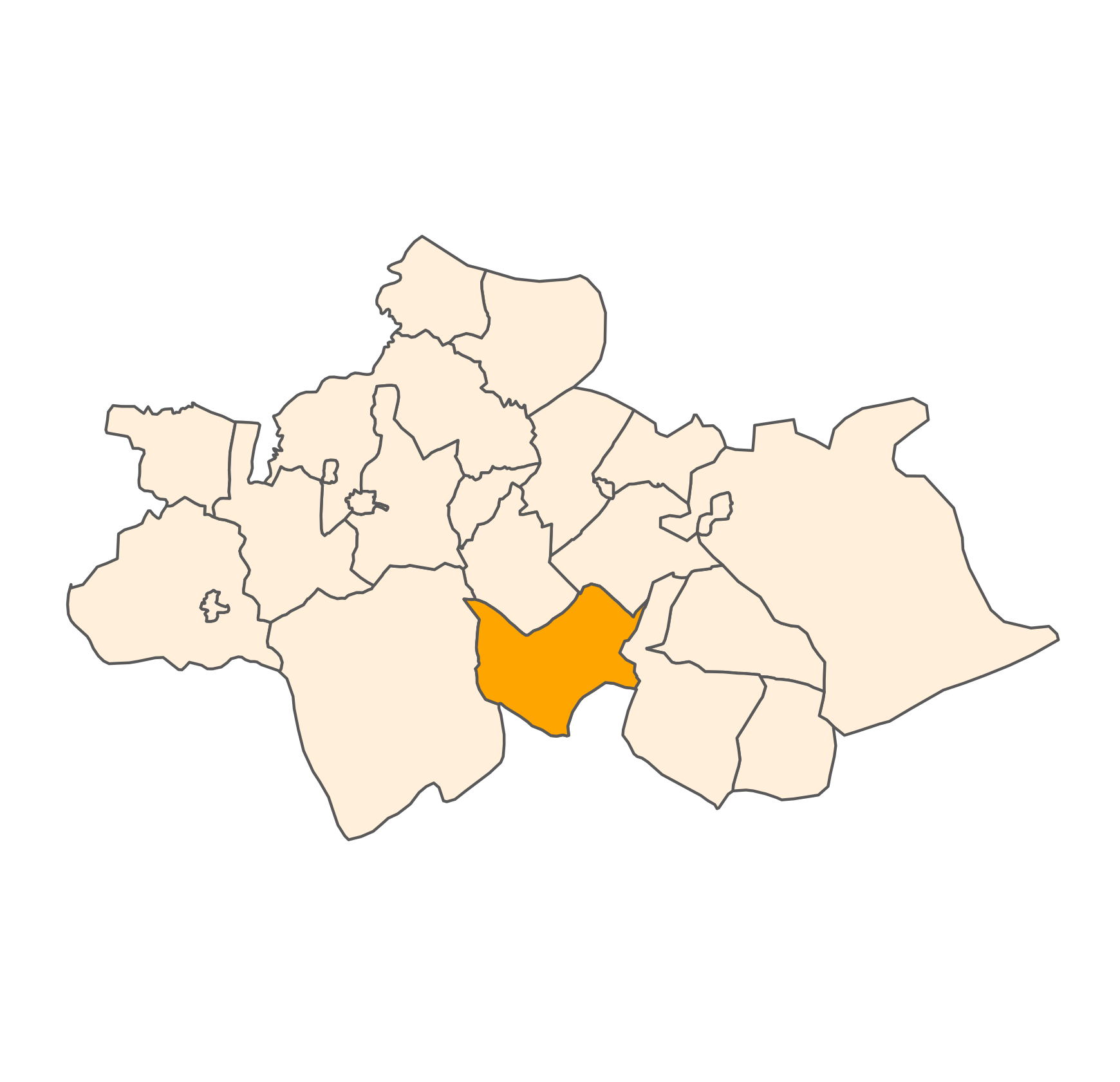 Commune (Orange), Sefrou Province (Antique White)